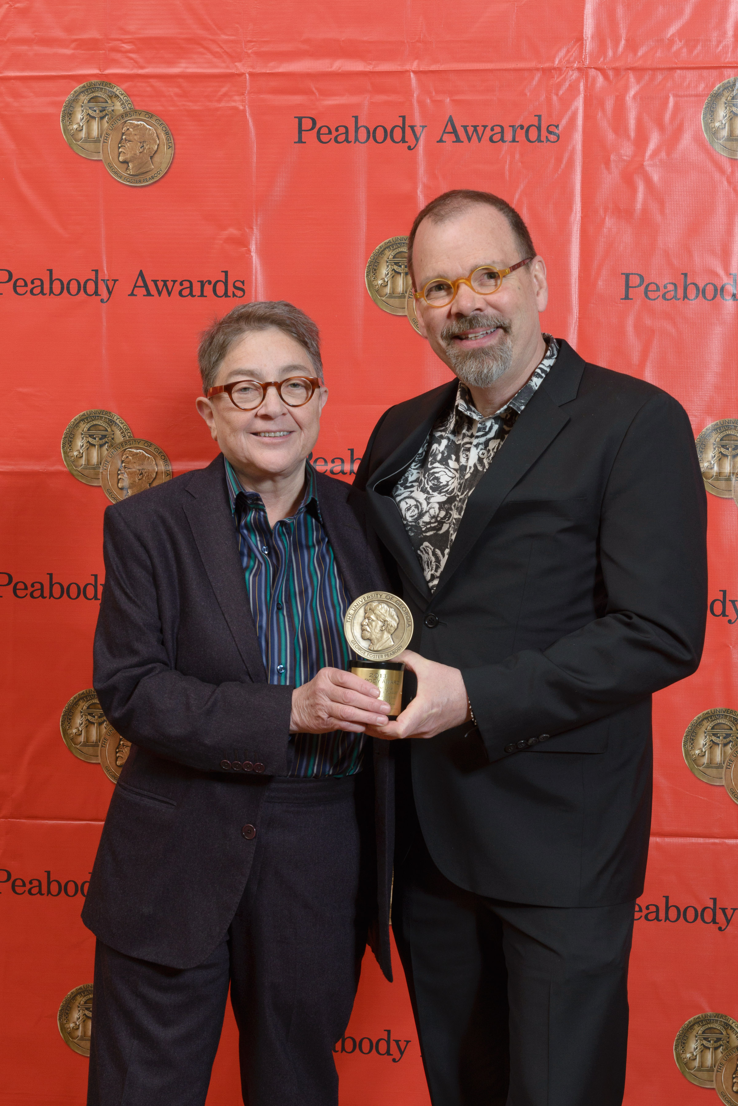 Joy Tomchin (left) and David France (right) at the 73rd Annual Peabody Awards